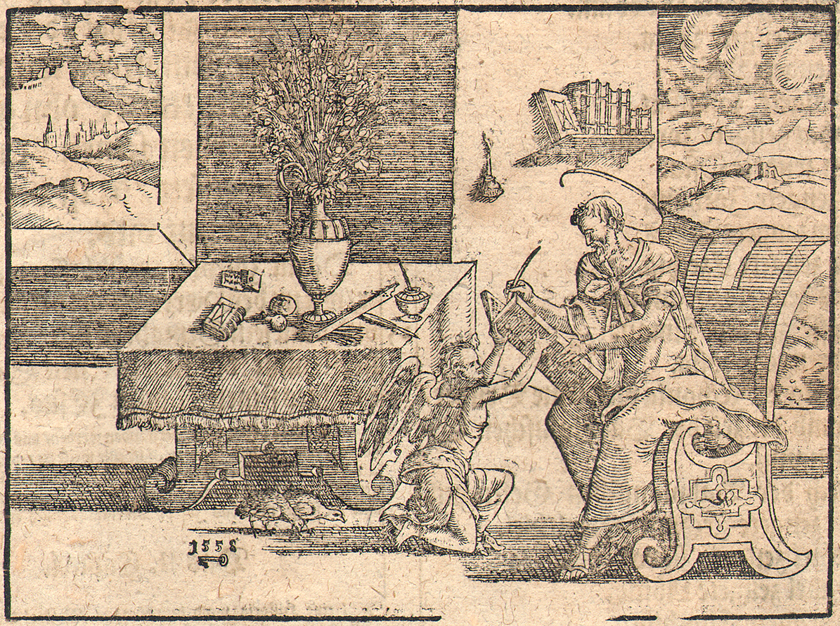 Wutenberg Bibel, 1558. John of Patmos. Woodcut. 11 X 14,5 cm.